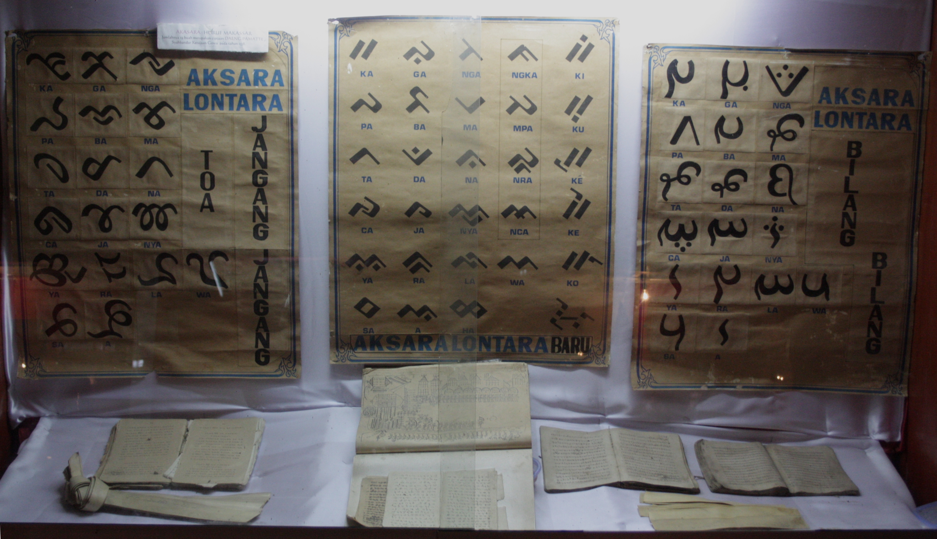 Lontara script at Balla Lompoa Museum, Sungguminasa, Gowa, South Celebes, Indonesia